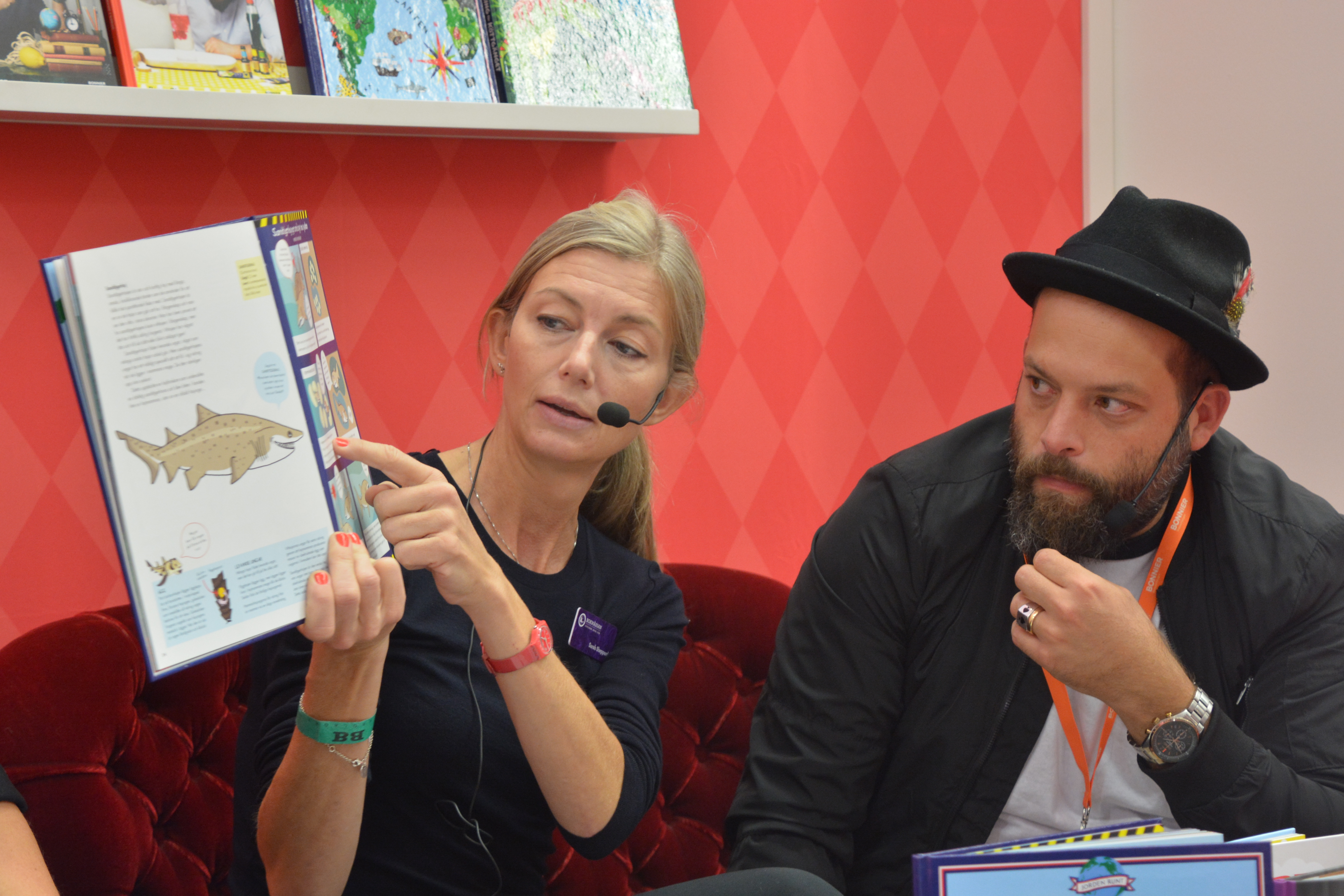 Sarah Sheppard och Beppe Singer på Bokmässan 2016